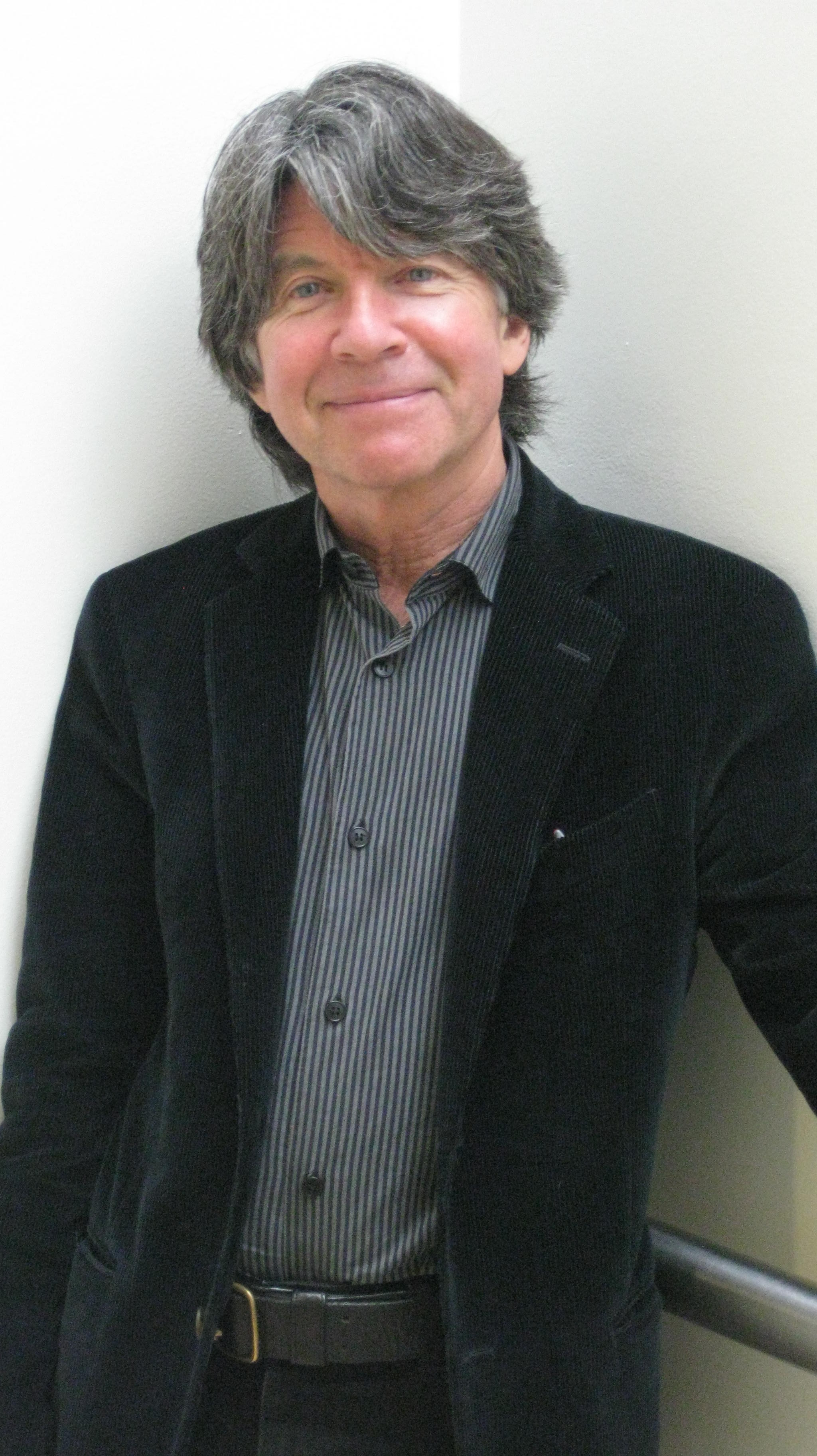 Photograph of British author and illustrator Anthony Browne